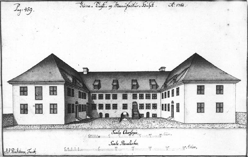 Drawing of Børne, Tugt, og Manufactur, Huset. A: 1765. J. J. Reichborn.